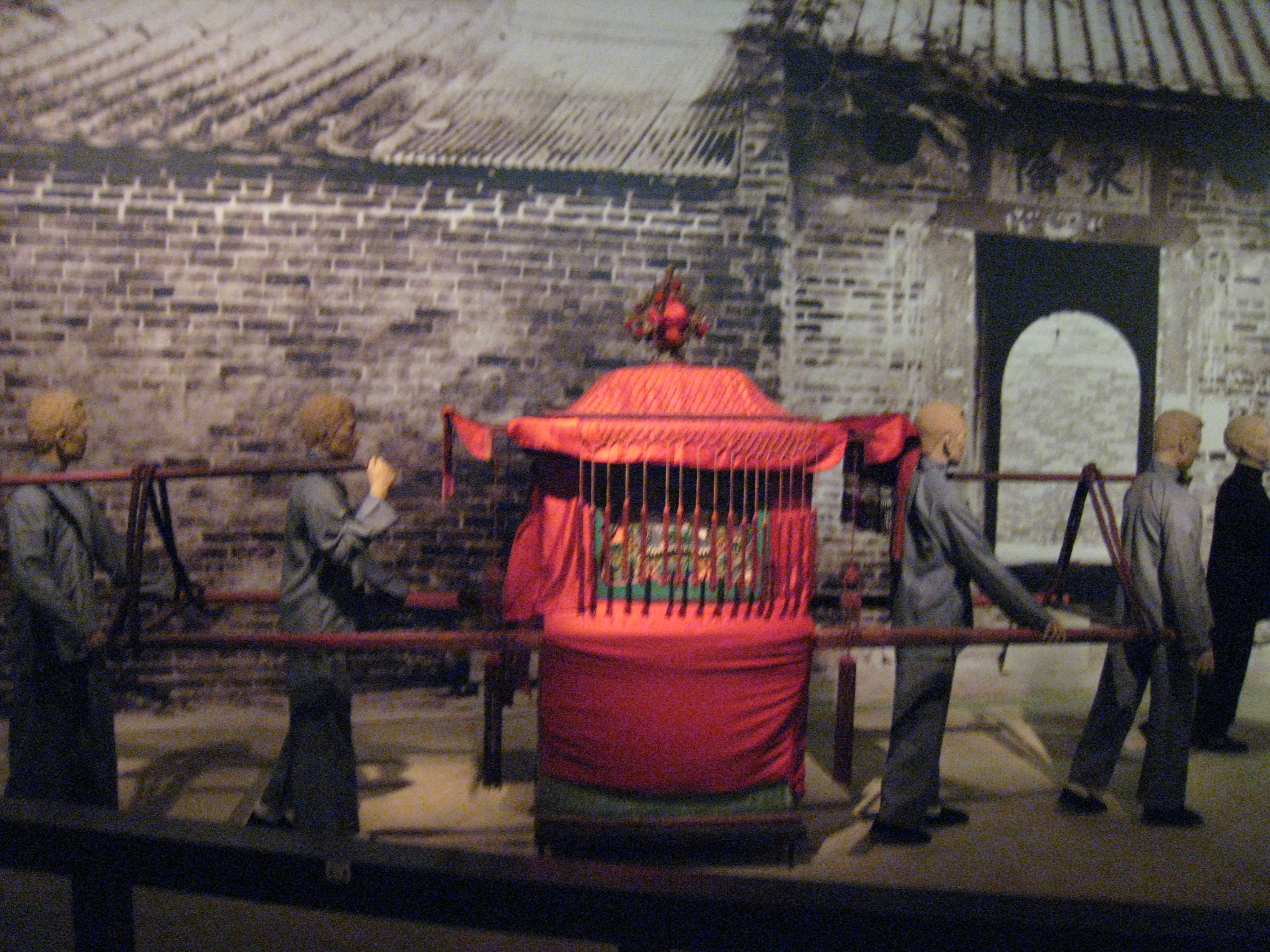 A Chinese wedding transport chair